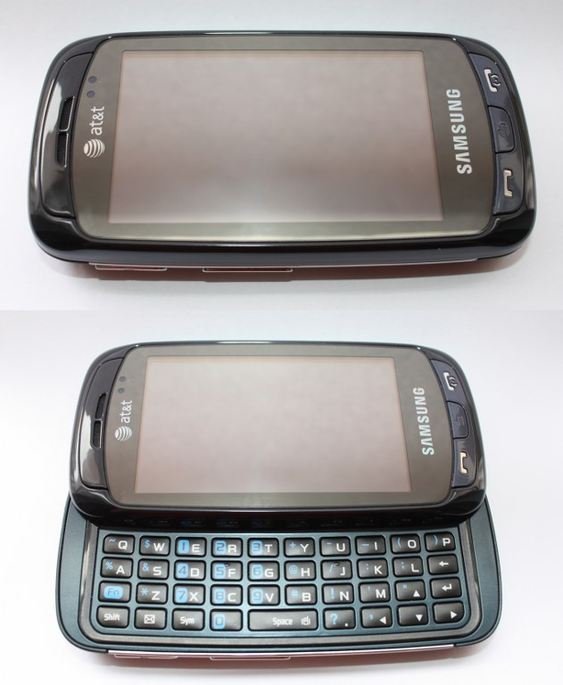 A Samsung Impression phone shown both closed and open to expose the keyboard.